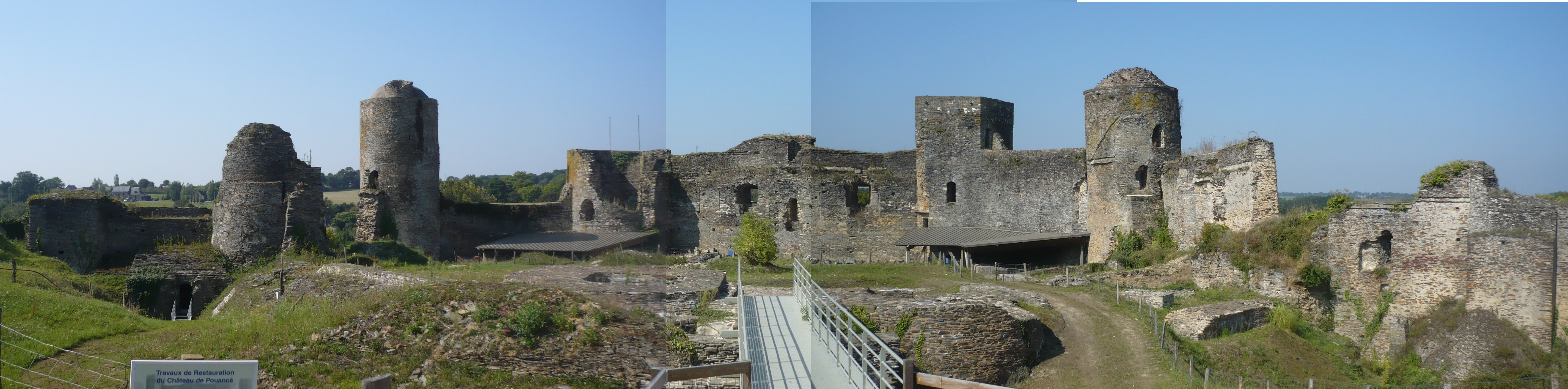 Pouancé castle